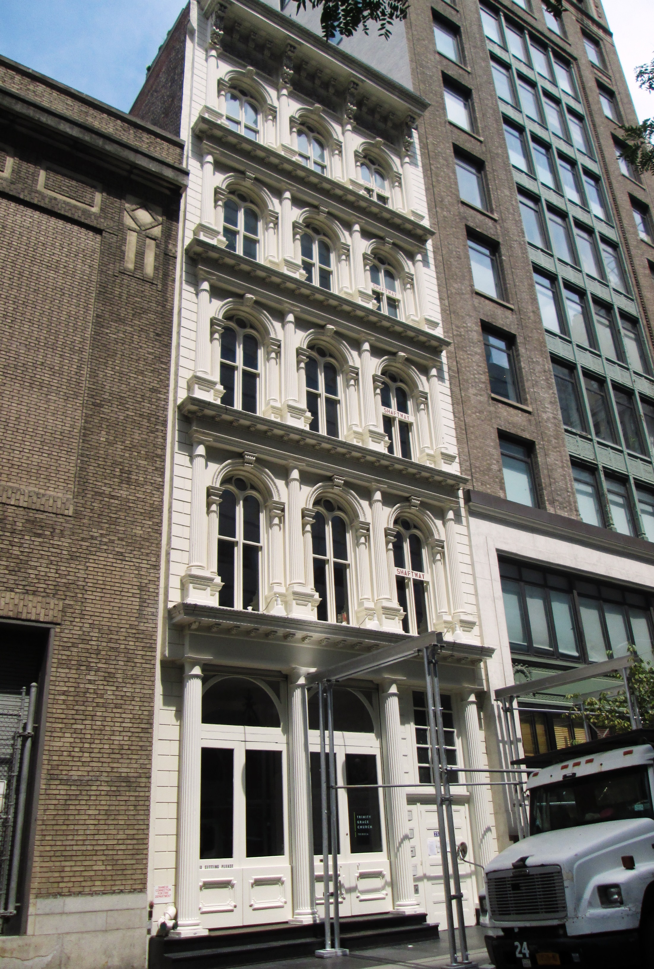 The Hopkins Store at 75 Murray Street between West Broadway and Greenwich Street in the TriBeCa neighborhood of Manhattan, New York City, was built in 1857-58 and features a cast-iron facade in the Venetian Renaissance style from the foundry of James Bogardus. Francis and John Hopkins were merchants of glassware. The building was converted to residential use in 1994-95, at which time it was restored. (Sources: Guide to NYC Landmarks (4th ed.) and AIA Guide to NYC (5th ed.))